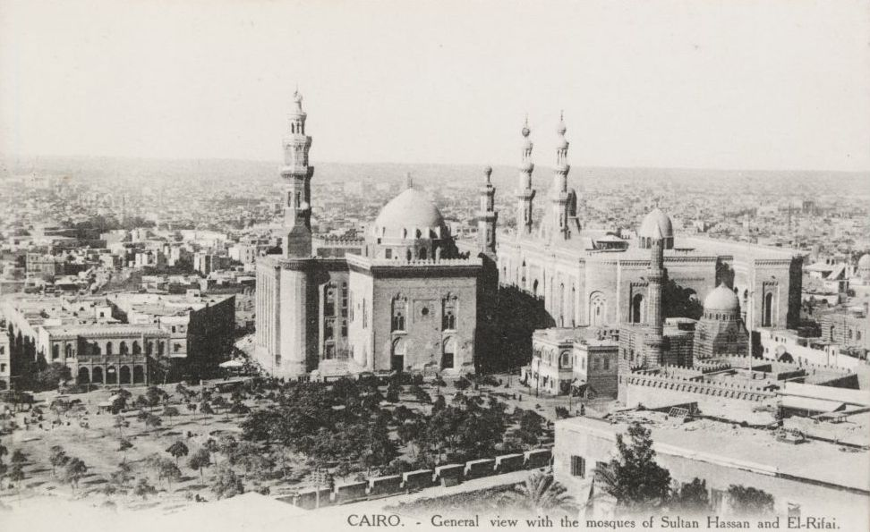 Two large mosques, surrounded by the city and a small garden in front